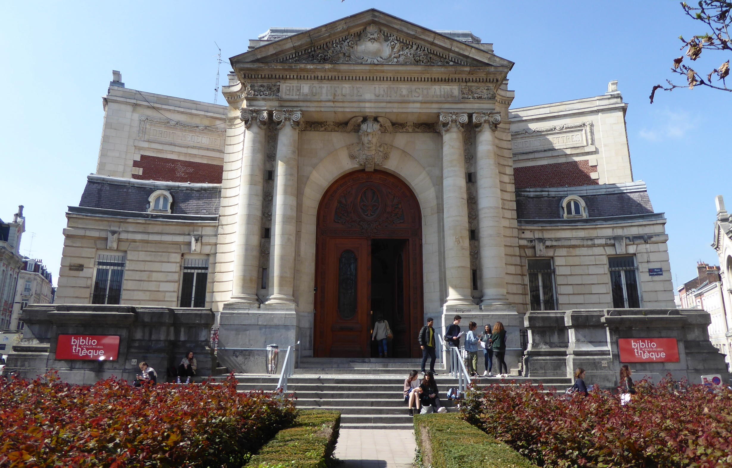 Library of Sciences Po Lille, former library of the University of Lille. (Lille, France.)